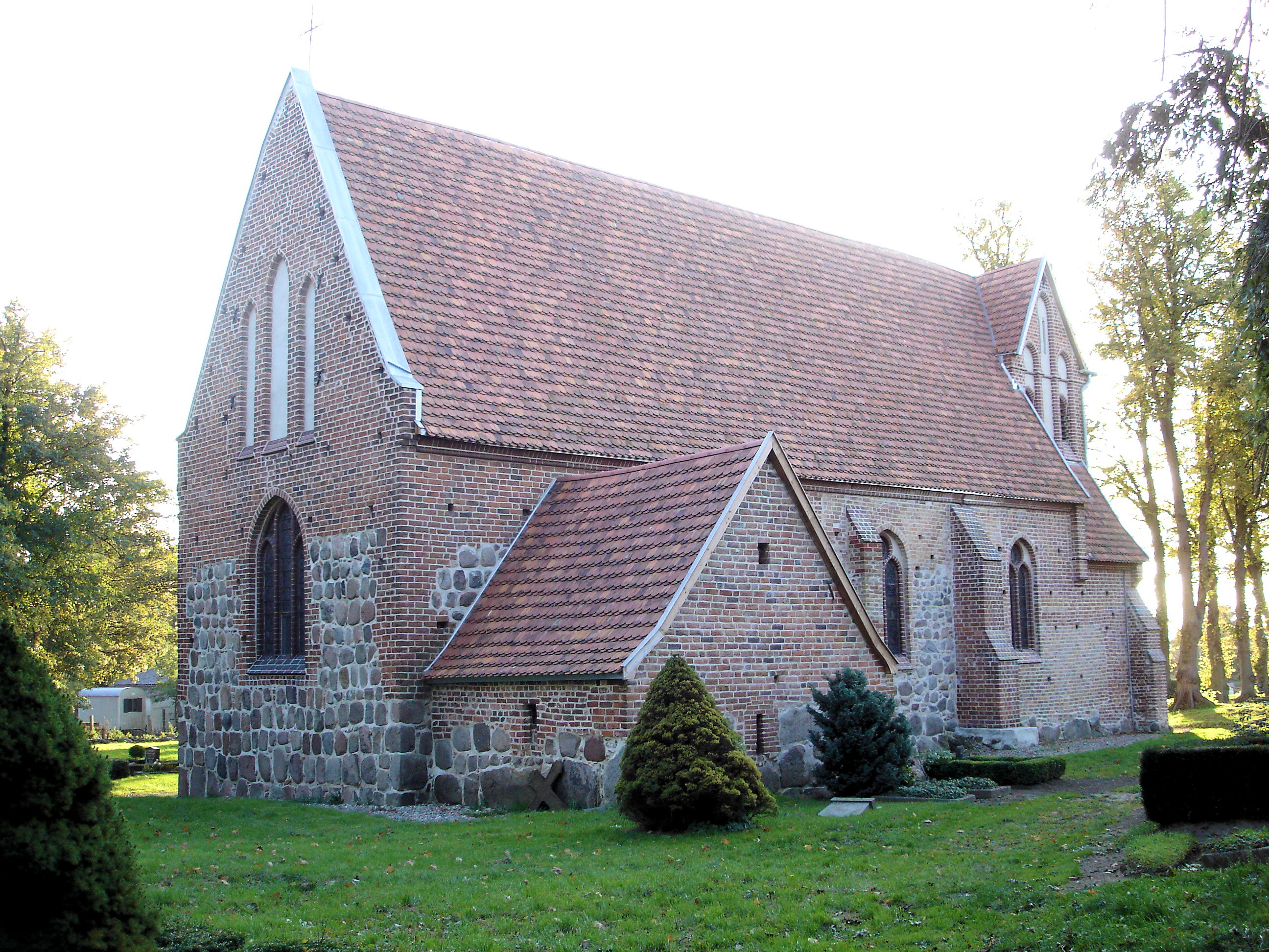 Church in Russow, Mecklenburg, Germany